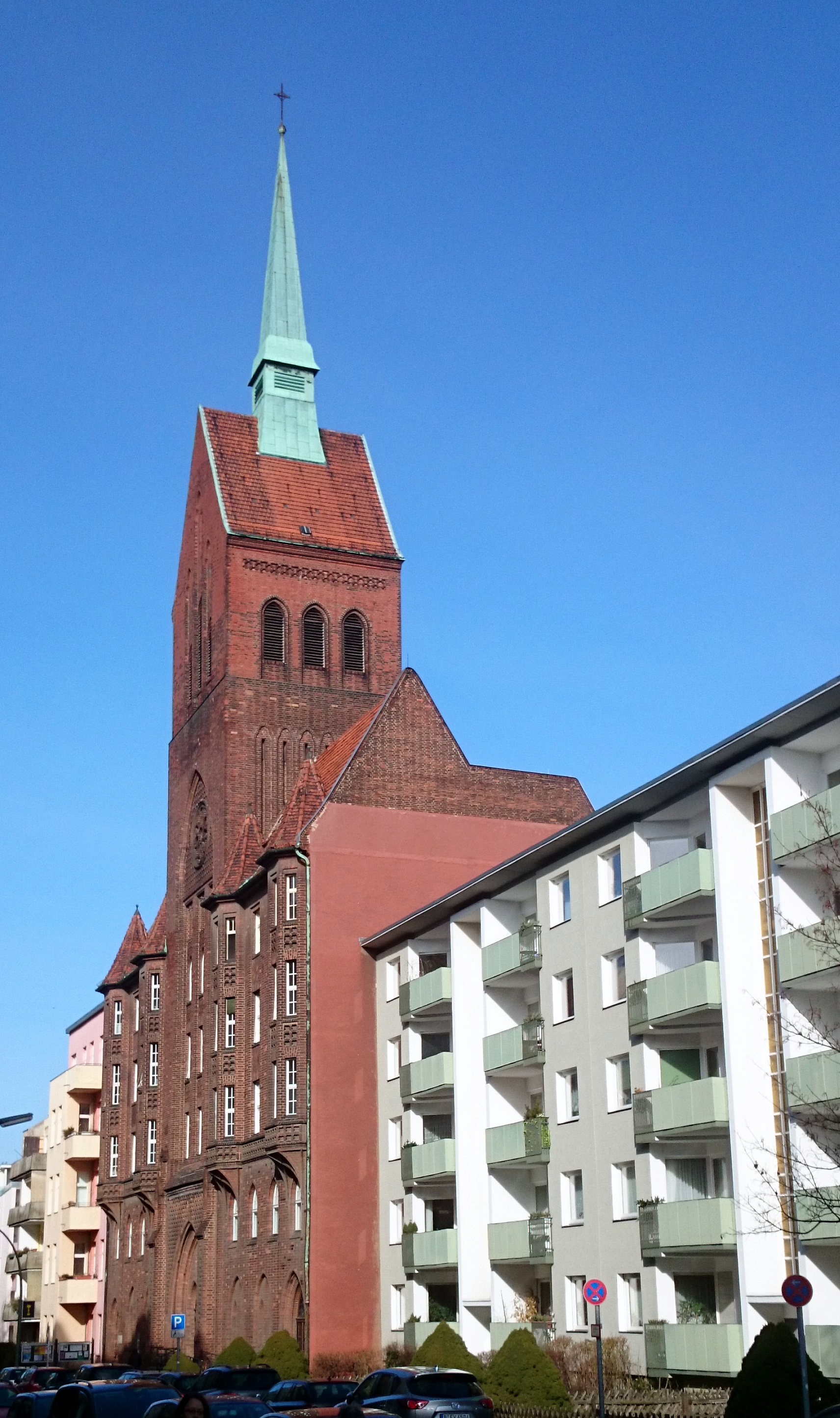 Berlin in late winter